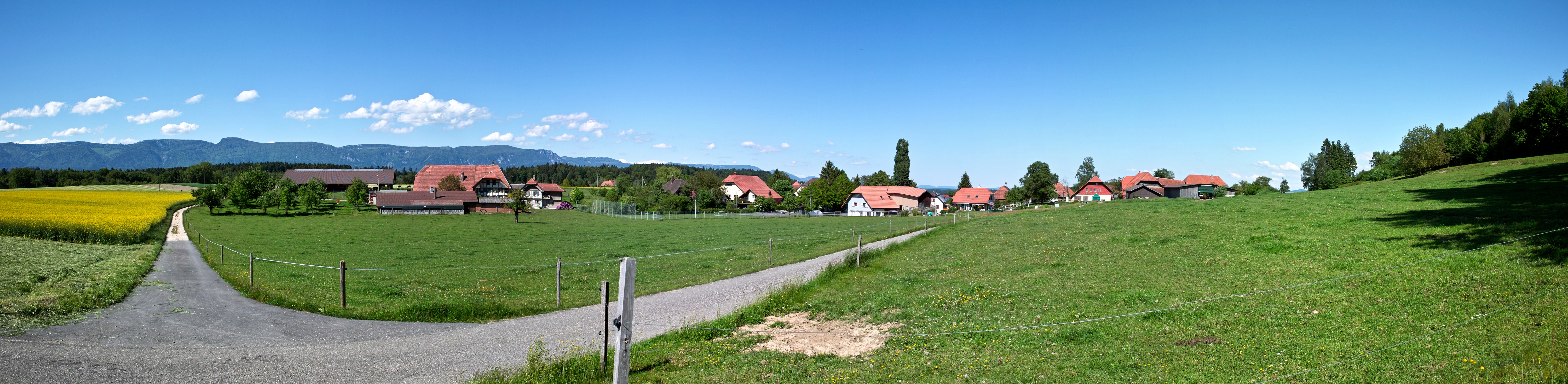 Panorama of the village of Brügglen in the municipality of Buchegg, canton of Solothurn, Switzerland.